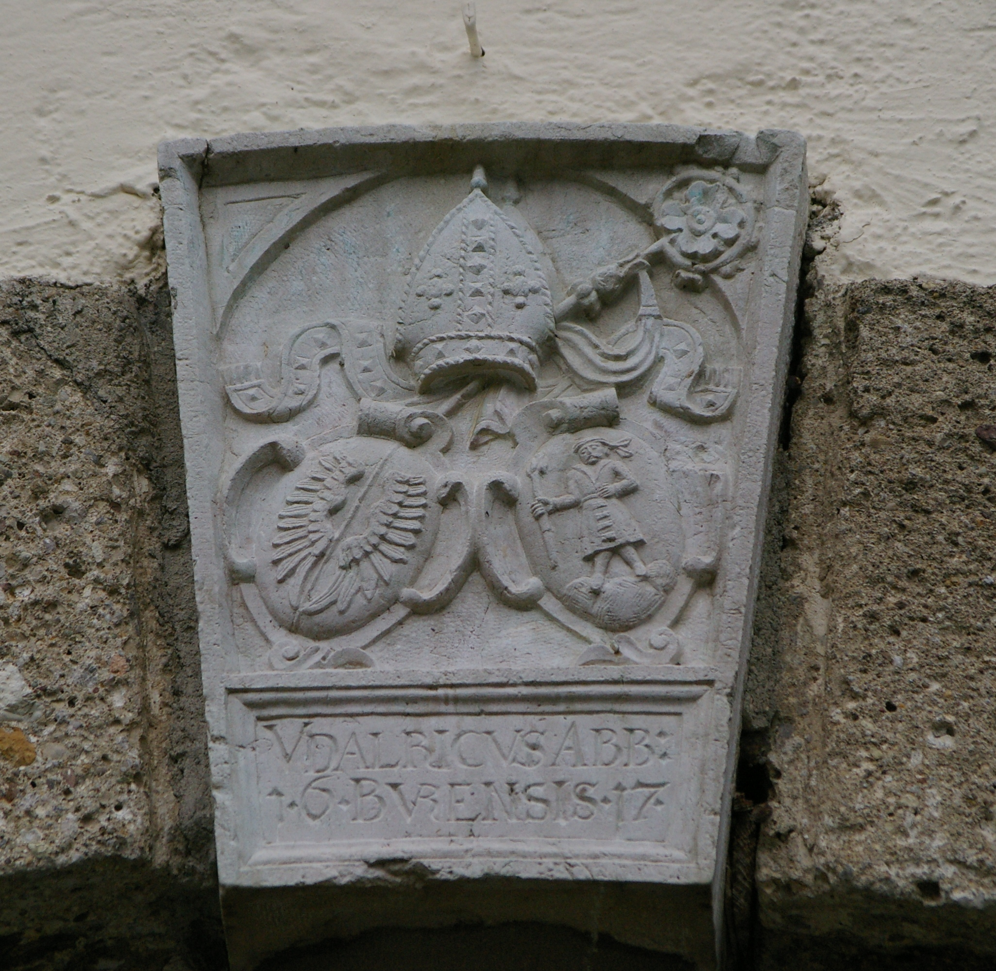 Coat of arms of abbot Ulrich Hofbauer, Michaelbeuern Abbey